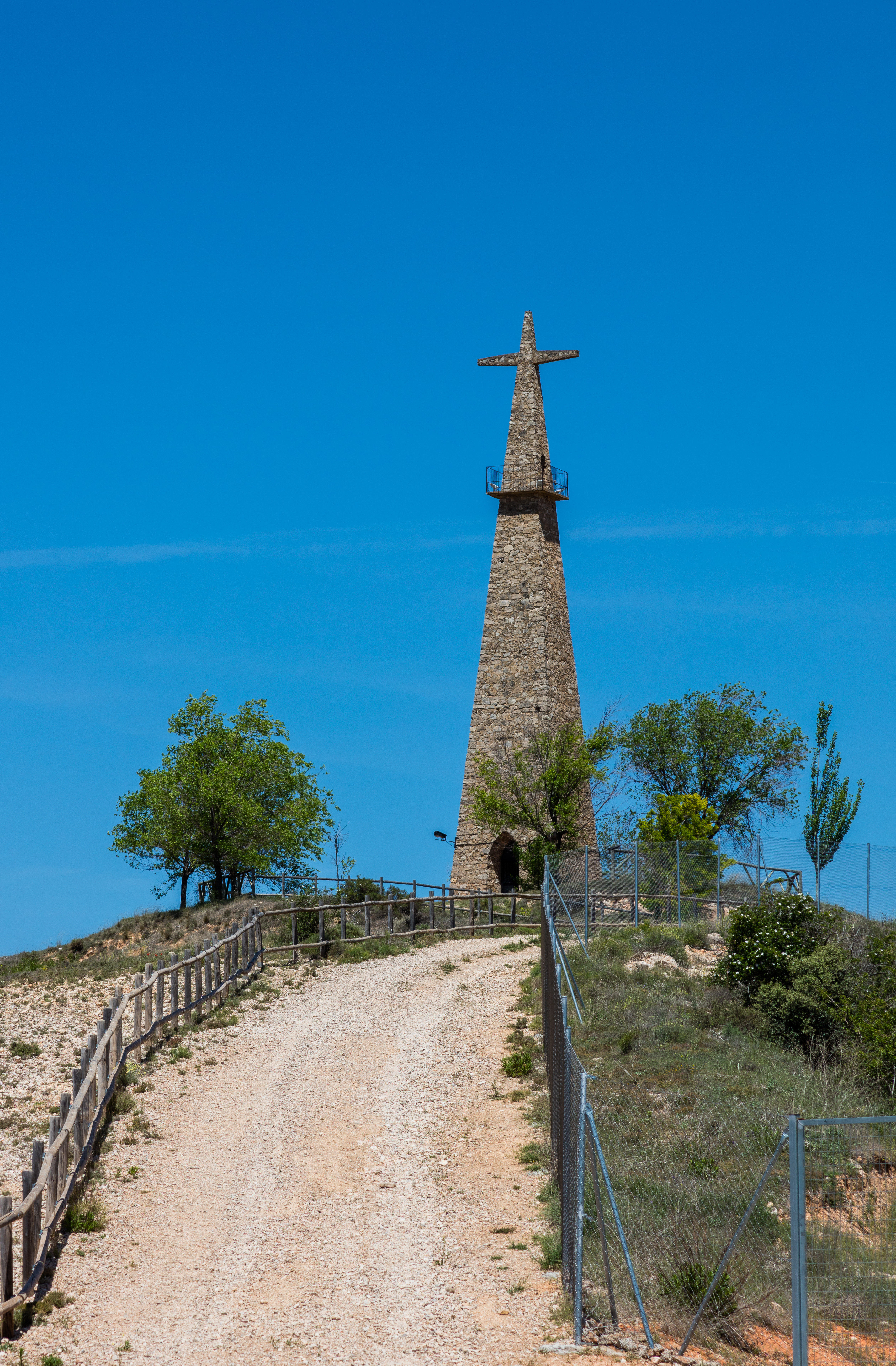 La Frontera, Cuenca, Spain